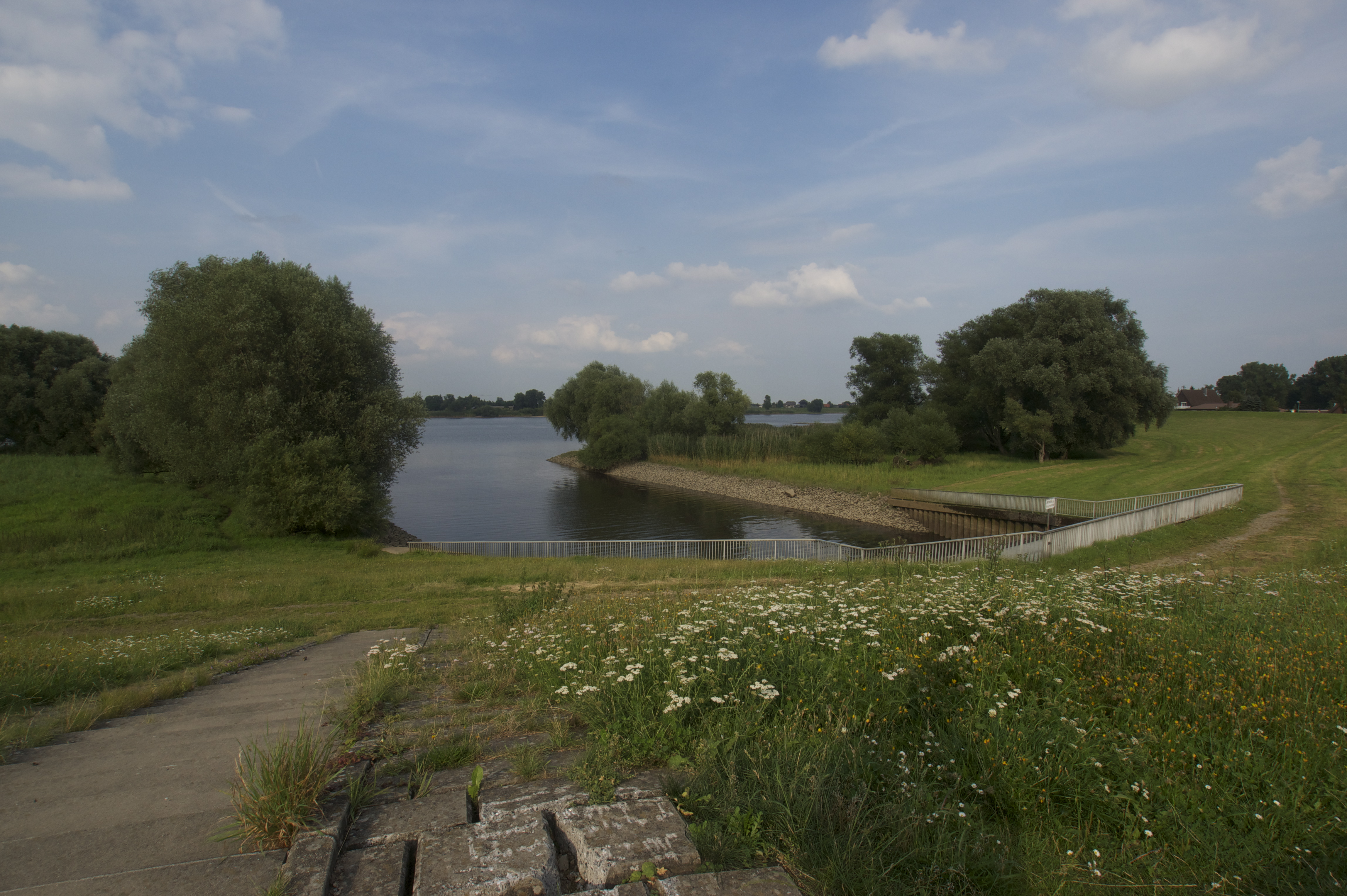 Stelle (Over), Germany: The confluence of the Seeve and the Elbe at the border with Wuhlenburg